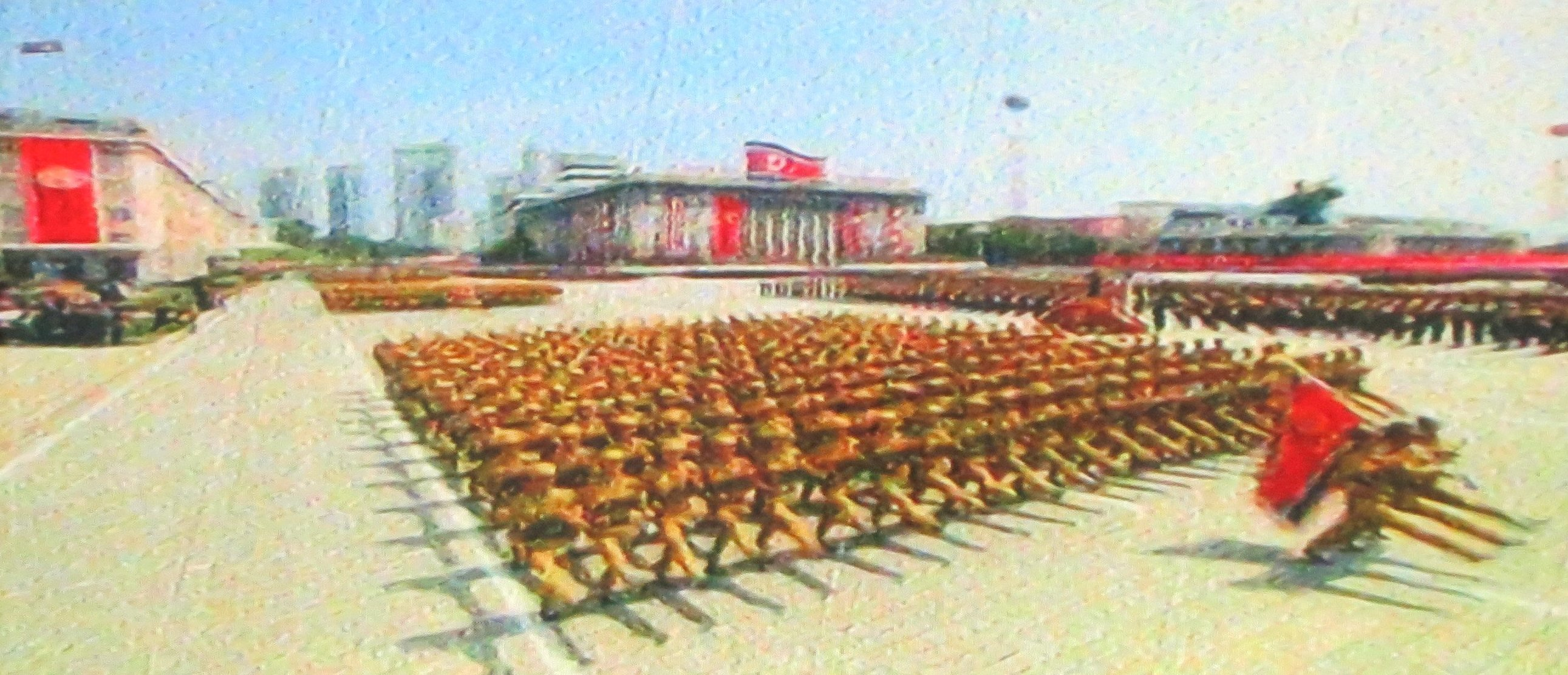 North Korea Victory Day 070